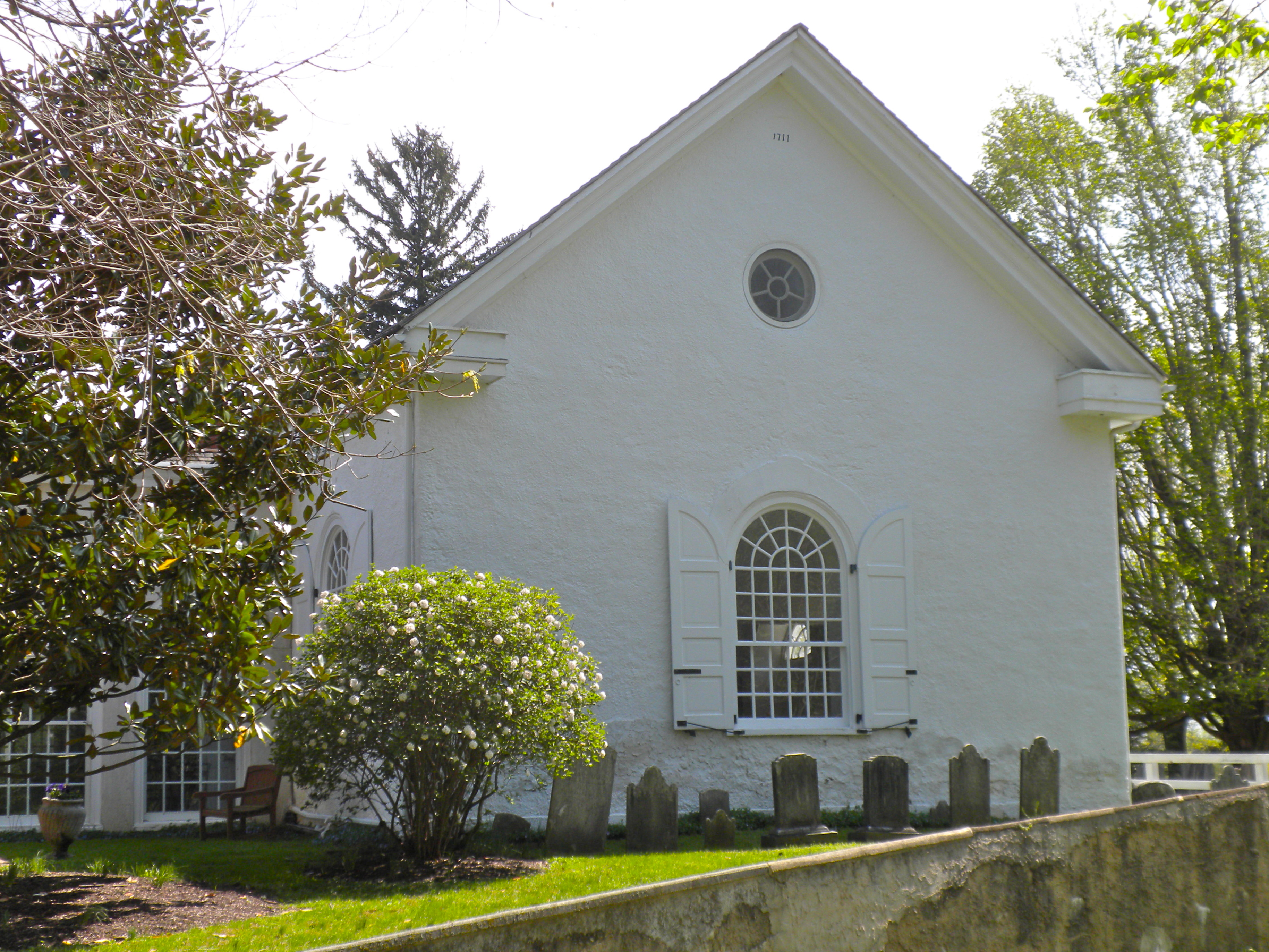 St. Peter's Church in the Great Valley, on NRHP since November 21, 1977. Located south of Phoenixville off Pennsylvania Route 423 (Church Road at St. Peter's Road) in East Whiteland Township, Chester County, PA. Building dated 1711 in iron letters, other parts 1852. Involved in aftermath of Battles of Brandywine and the Paoli Massacre, 1777. Graves of both British and Continental troops there. Still an Anglican (Episcopal) Church.